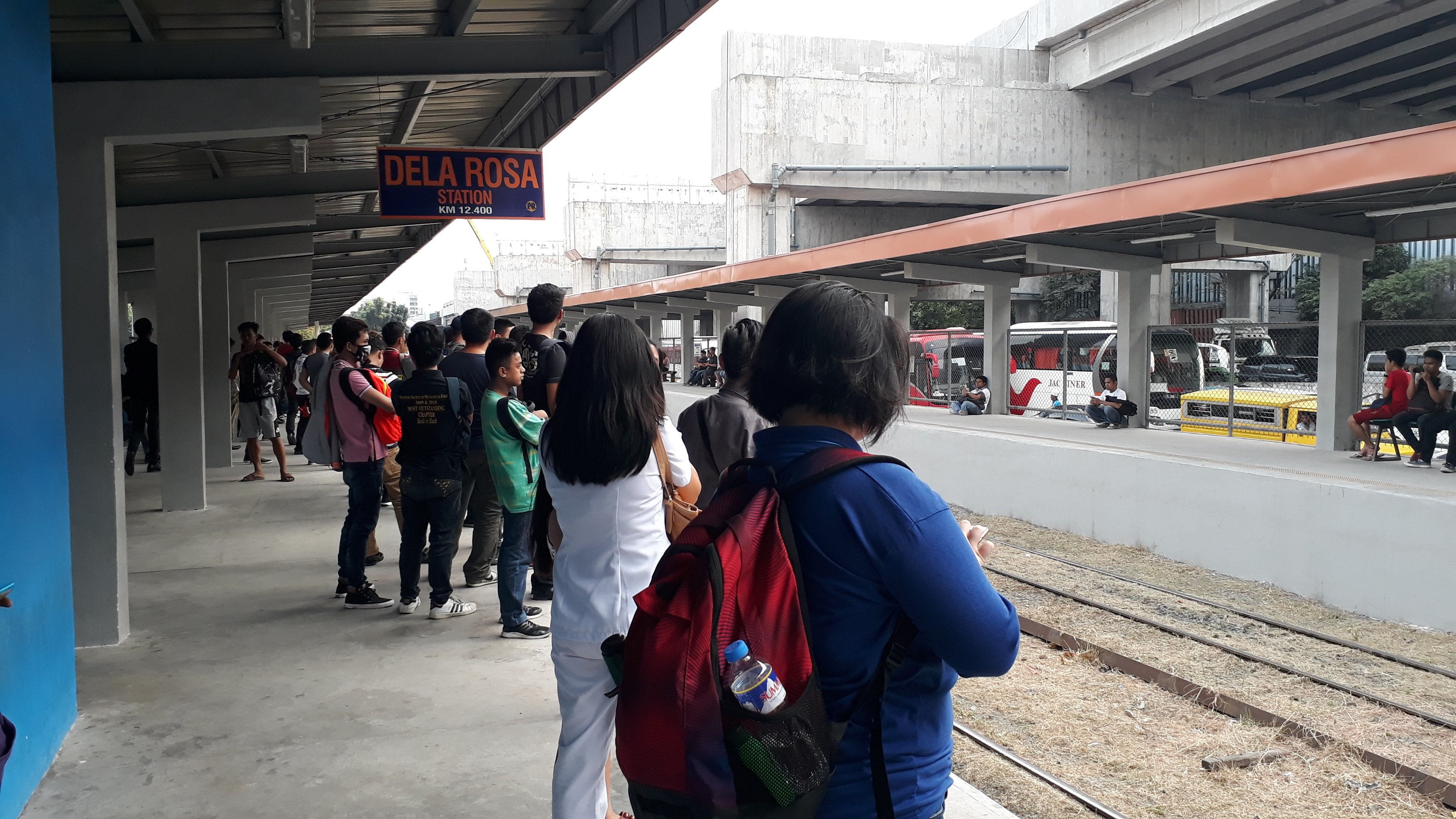 Philippine National Railways (PNR) Dela Rosa Station at South Suerhighway cor. Gil Puyat Avenue, Makati City